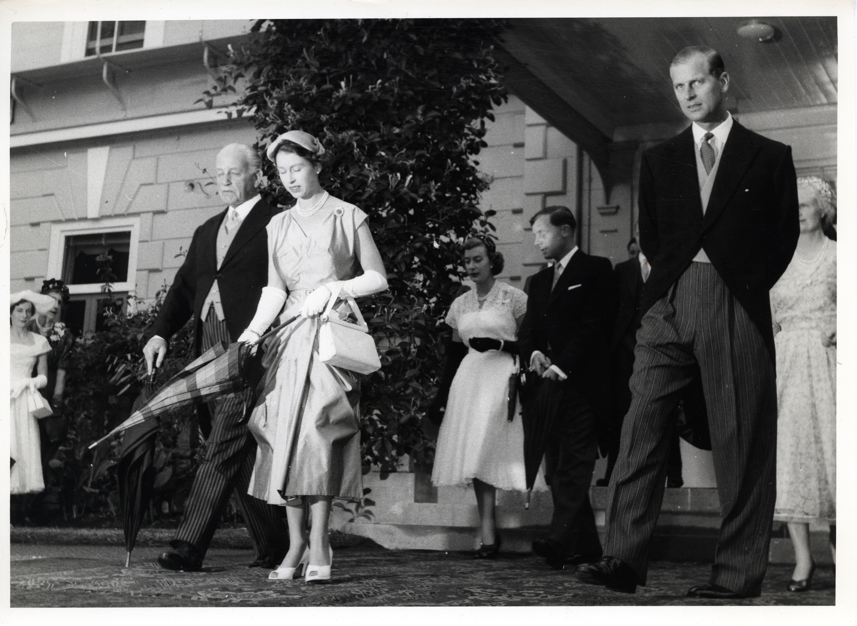 Elizabeth II is pictured here on the Royal Tour of New Zealand of 1953/54. The image is sourced from Communicate New Zealand - National Archives - CNZ Collection. Archives New Zealand Reference: AAQT 6538 W3537 box 1